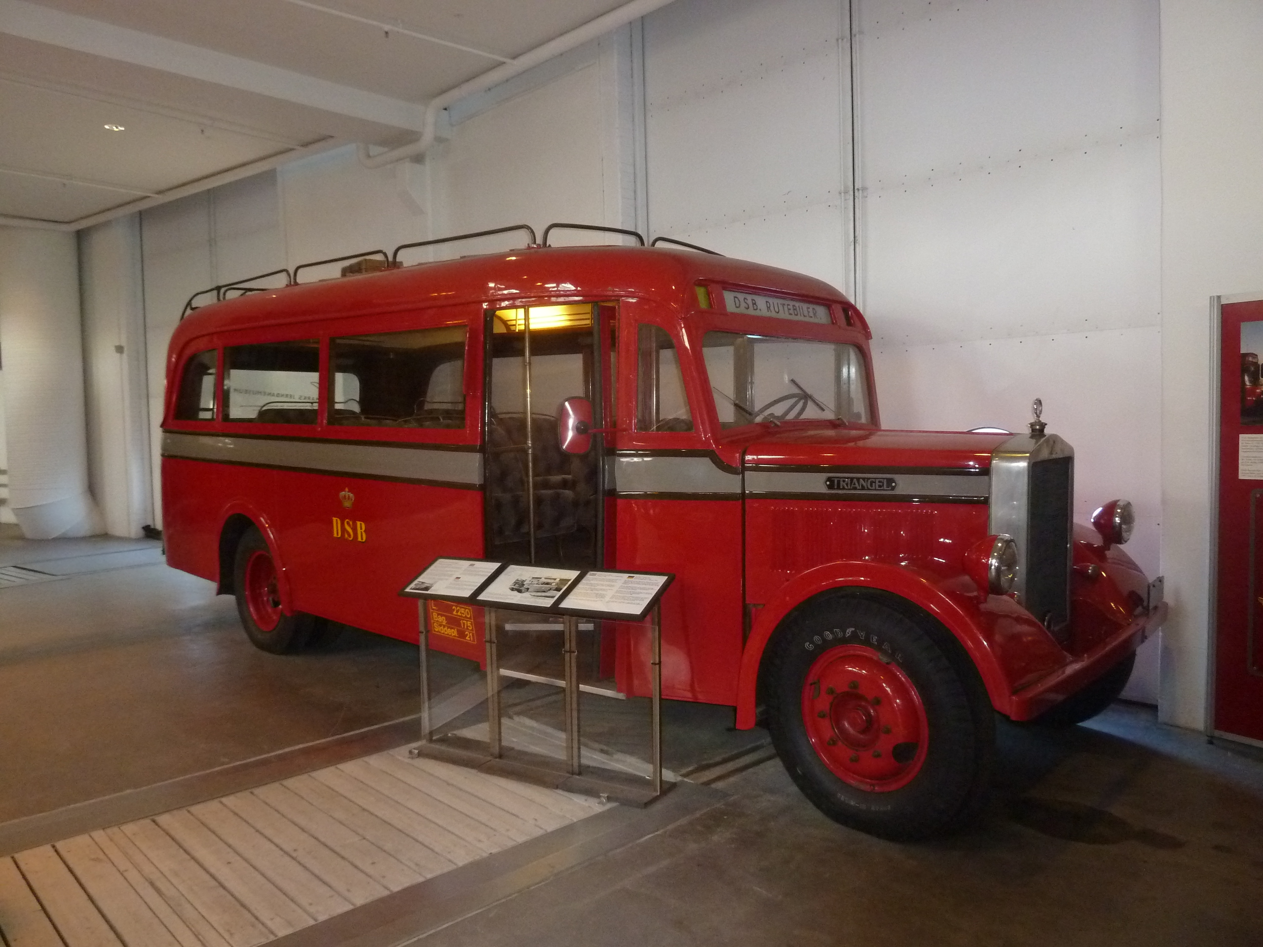 DSB bus made by Triangel, now on Danmarks Jernbanemuseum.